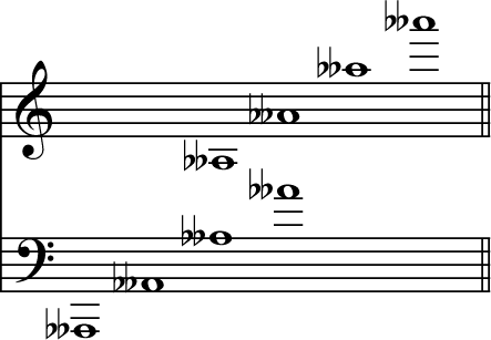 Notes, A Double Flat